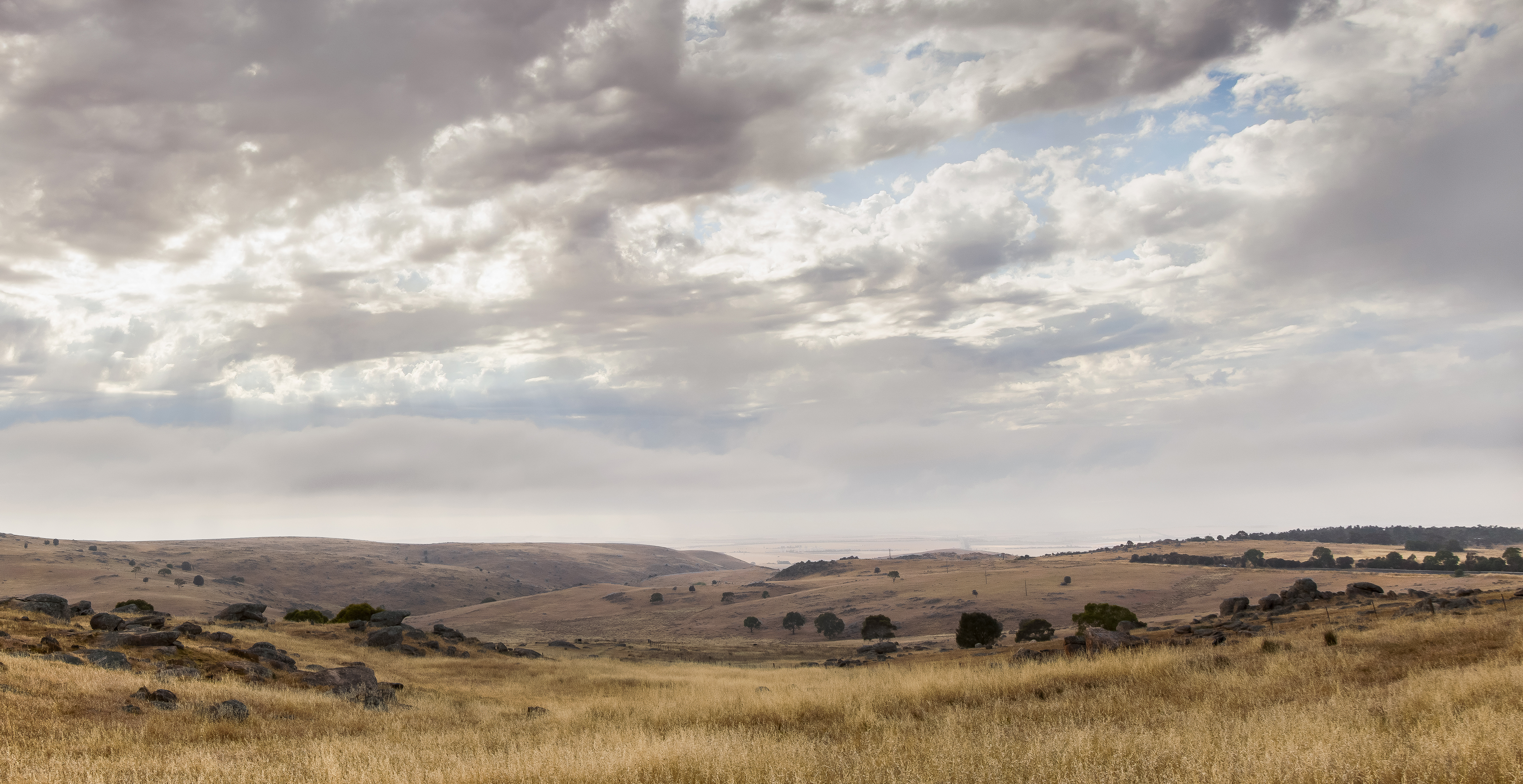 Randell Road near Palmer, South Australia 1st of November, 2015 8:35AM